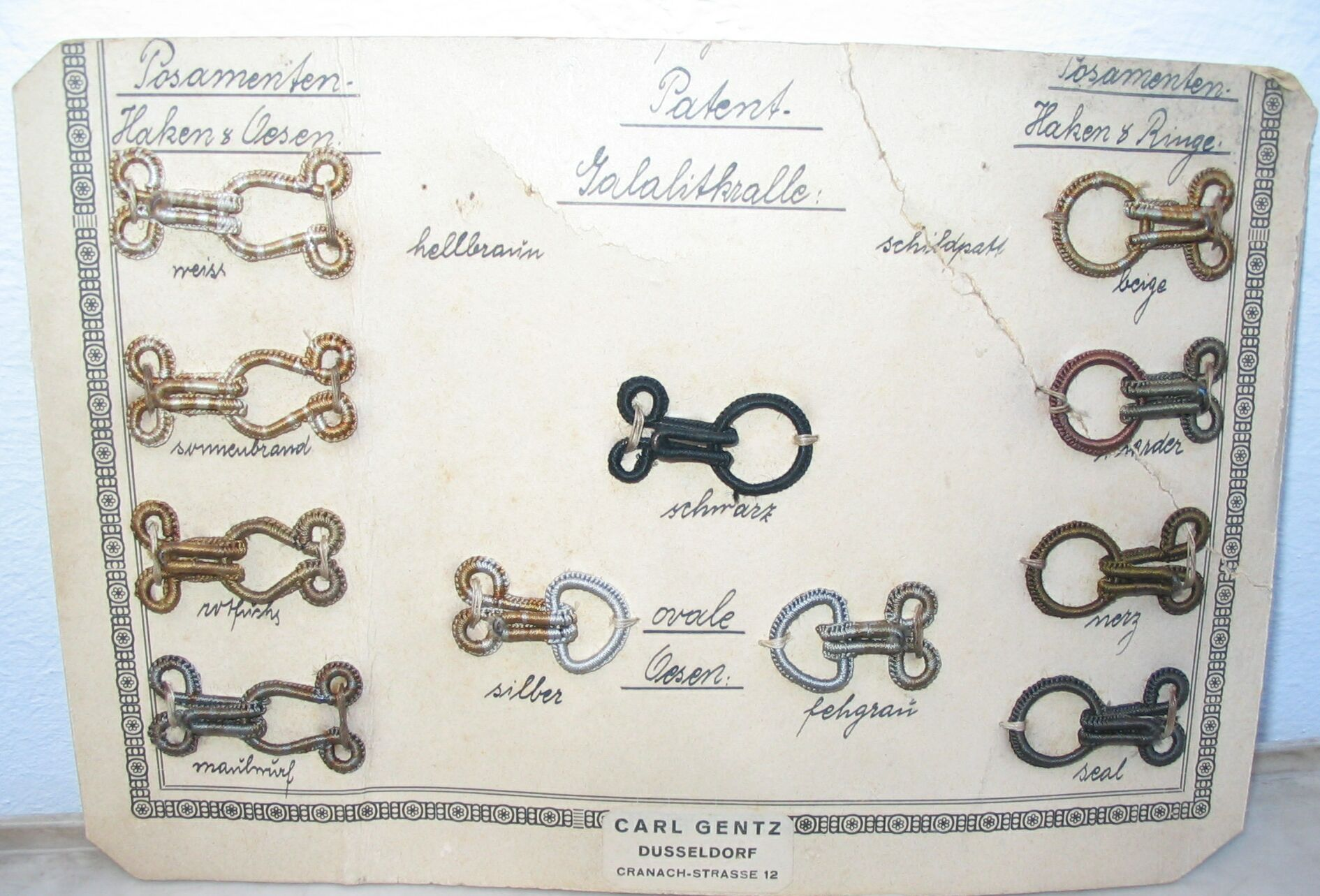 Furrier: Hooks & eyes for fur clothing